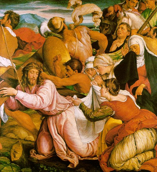 the way to Calvarylabel QS:Len,"the way to Calvary" label QS:Lde,"Der Weg nach Golgatha"